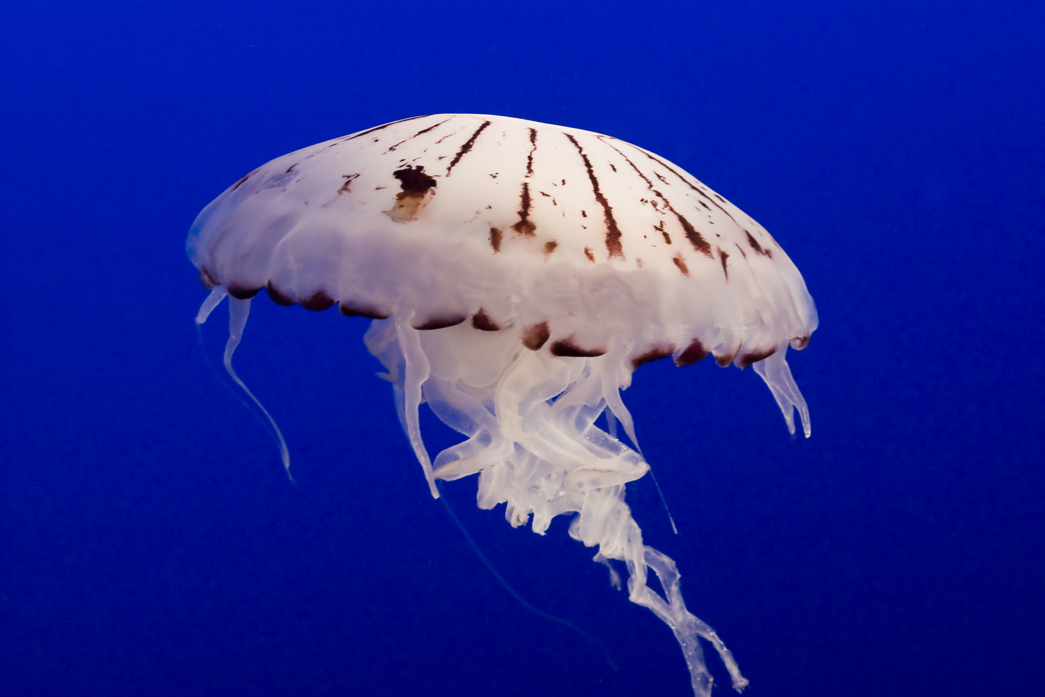 Picture of a "Purple-striped Jelly" (Chrysaora Colorata) taken at Monterey Bay Aquarium, Monterey, California, USA.